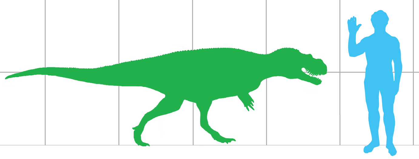 Fosterovenator compared to a human.